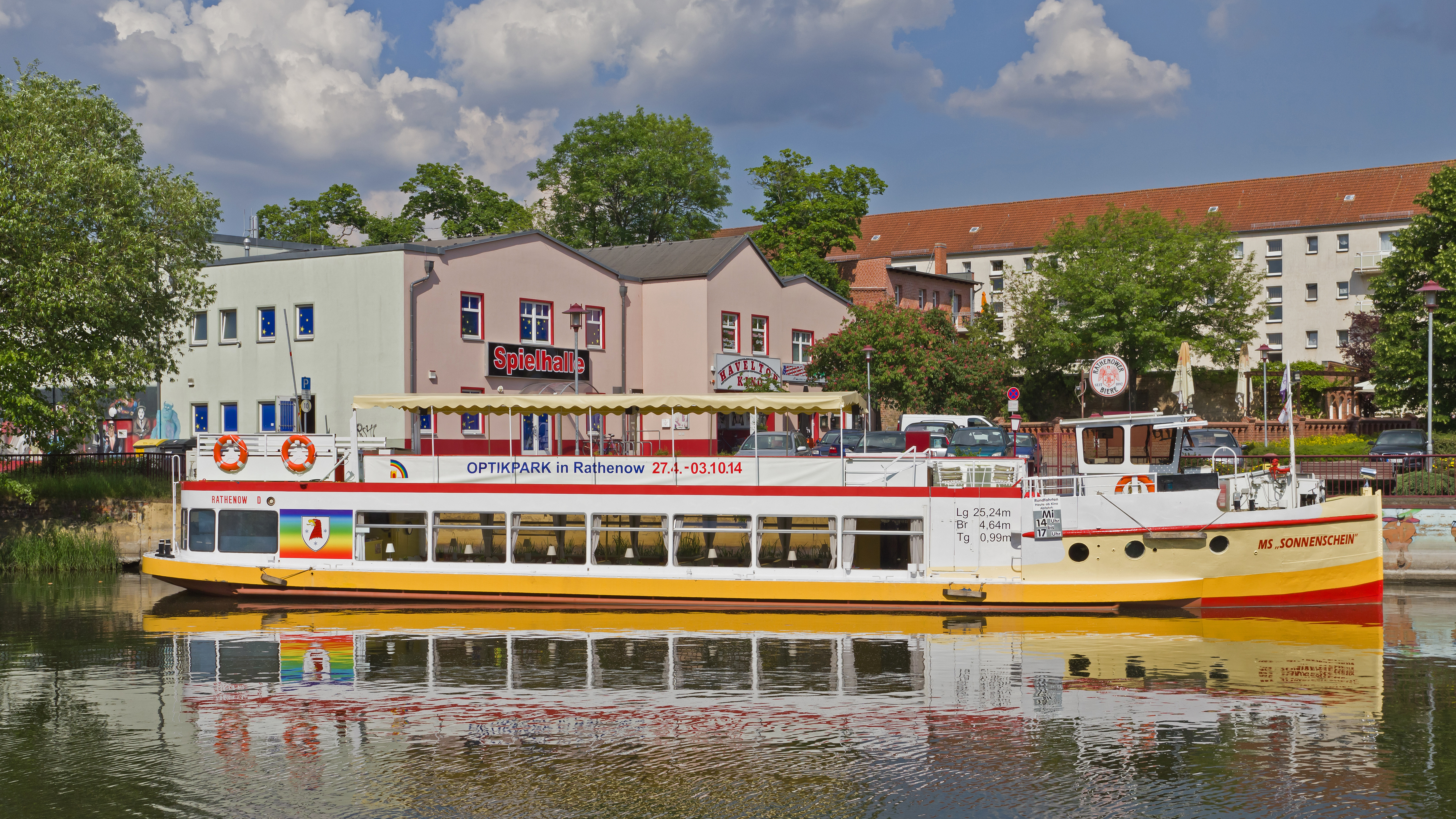 Rathenow, Brandenburg, Germany: Optics Park